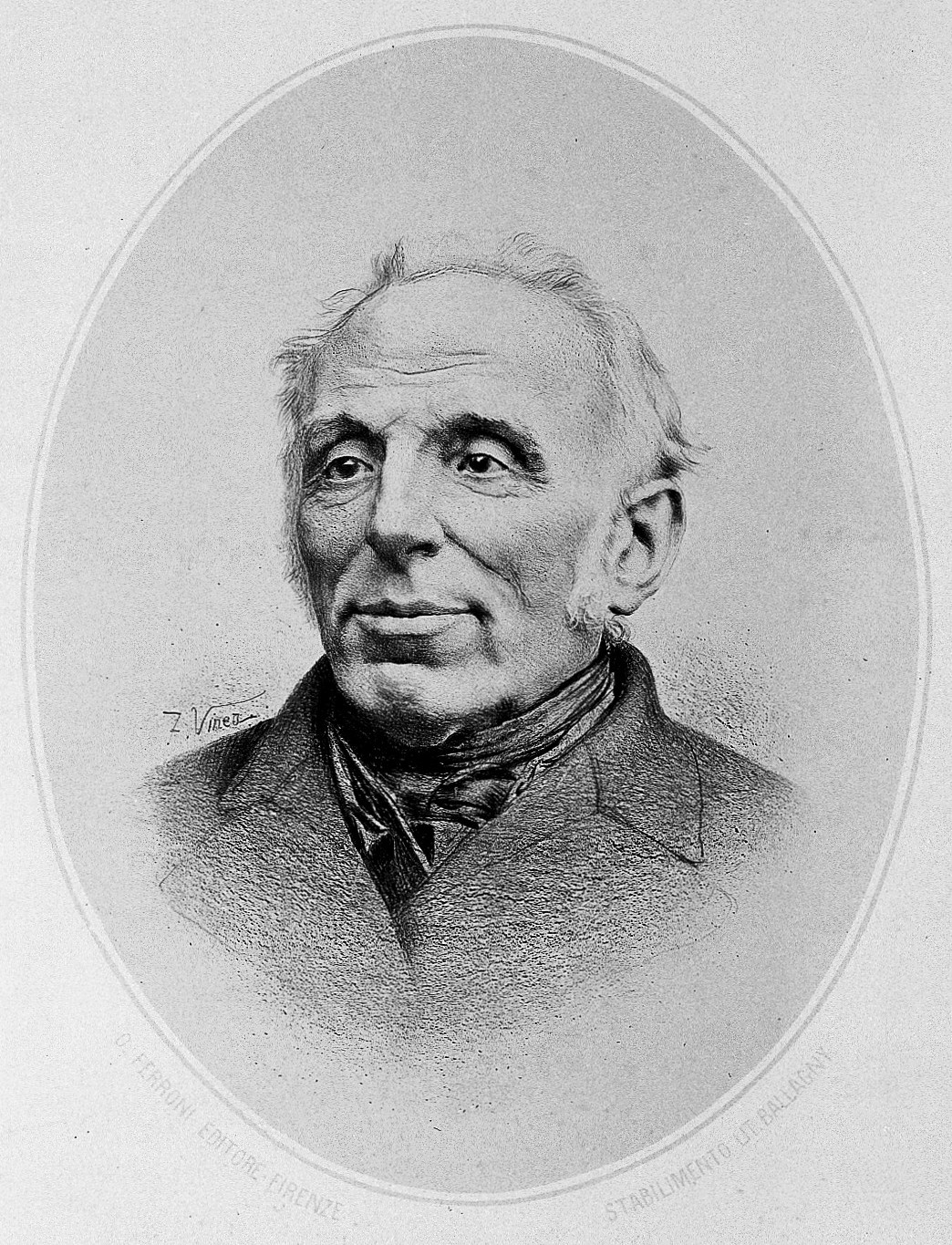 Portrait of Maurizio Bufalini Iconographic Collections Keywords: Maurizio Bufalini; F. Viner